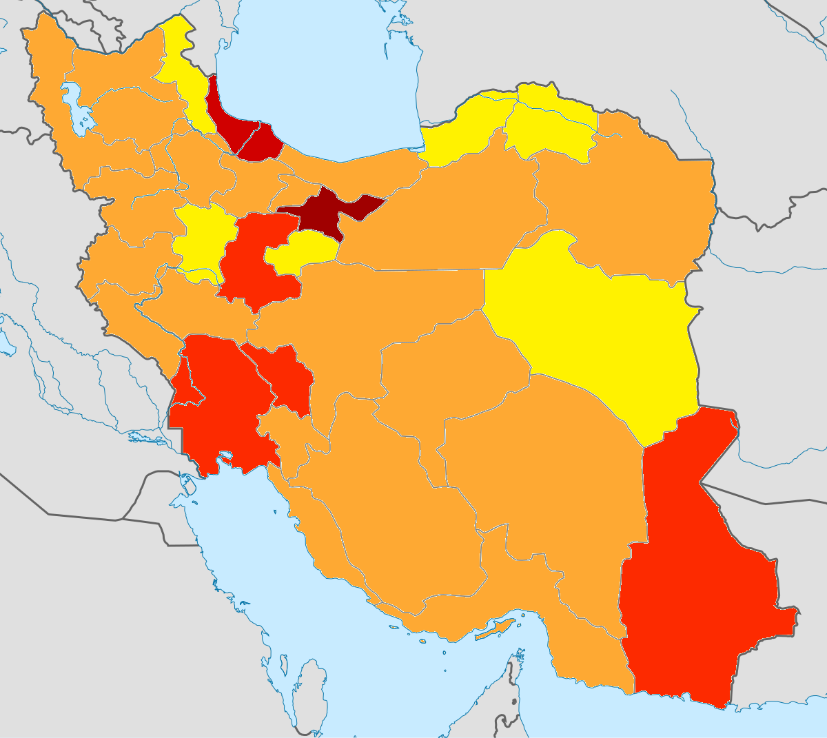 tallest completed structures in Iran provinces 2020 +400m +300m +200m +100m +50m Ascording to List of tallest structures in Iran in Persian Wikipedia